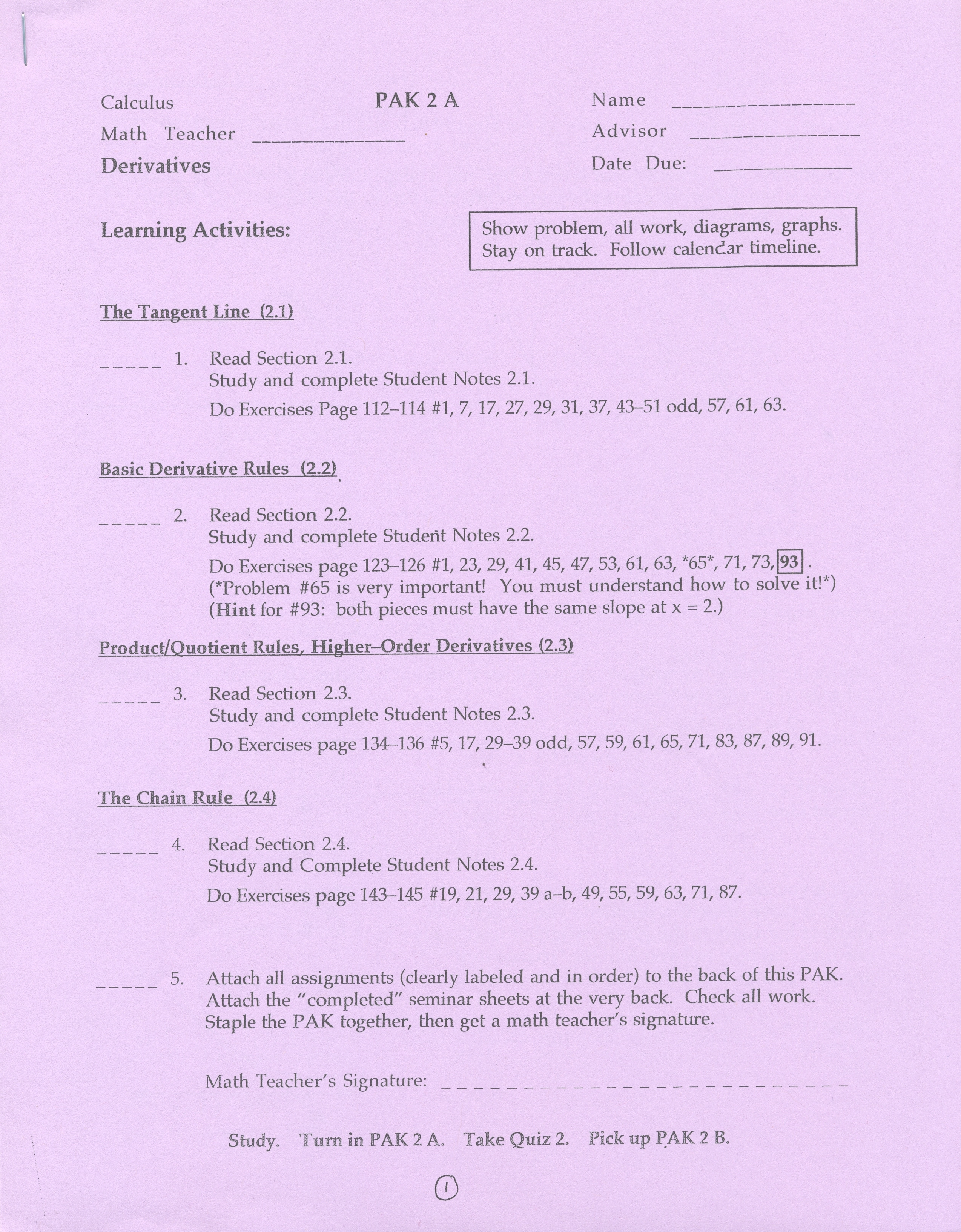 Front page of an AP Calculus PAK at Kerr High School.